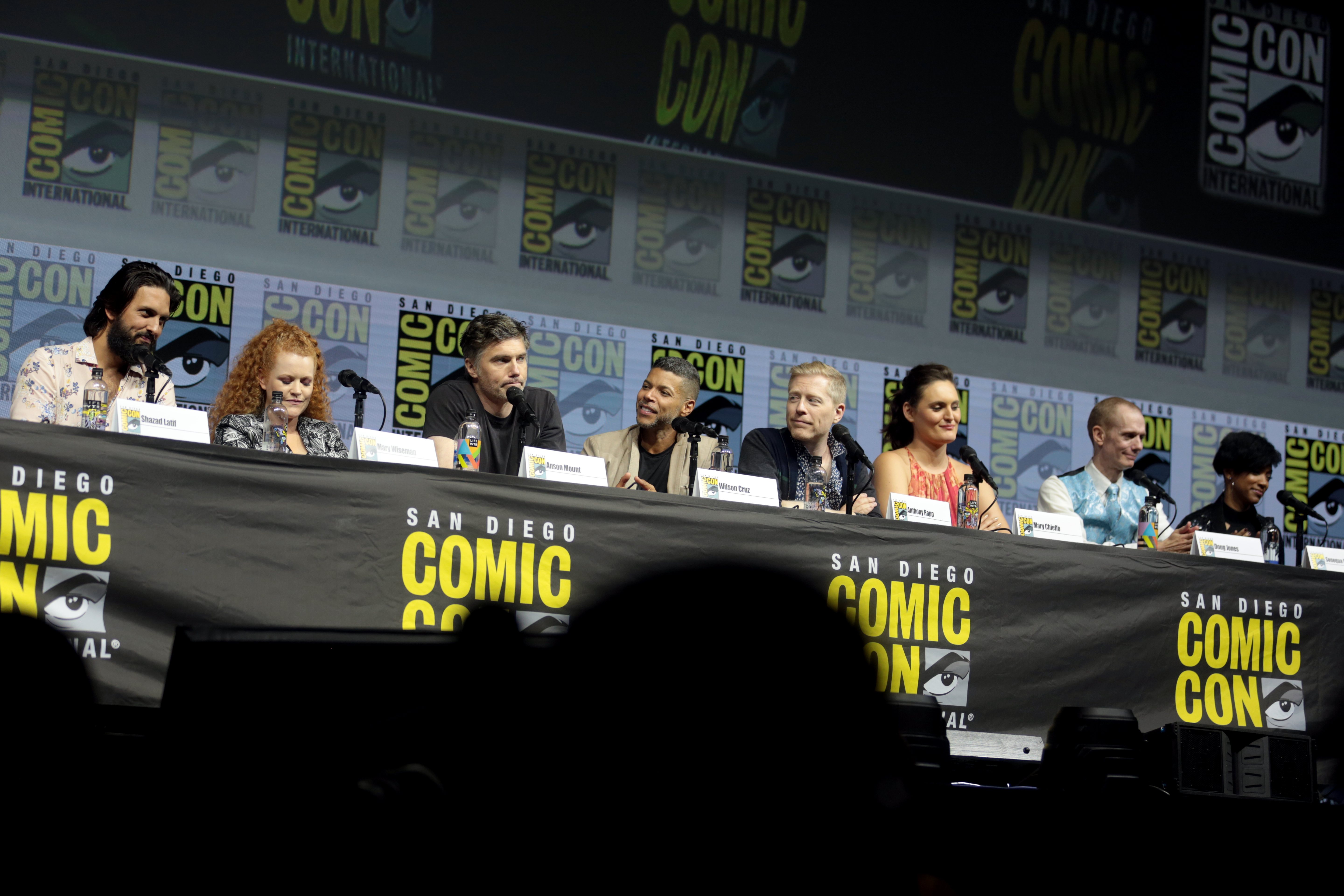 Shazad Latif, Mary Wiseman, Anson Mount, Wilson Cruz, Anthony Rapp, Mary Chieffo, Doug Jones and Sonequa Martin-Green speaking at the 2018 San Diego Comic Con International, for "Star Trek: Discovery", at the San Diego Convention Center in San Diego, California.